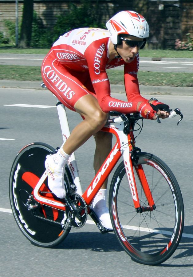 Maryan Hary at the 2009 Eneco Tour prologue